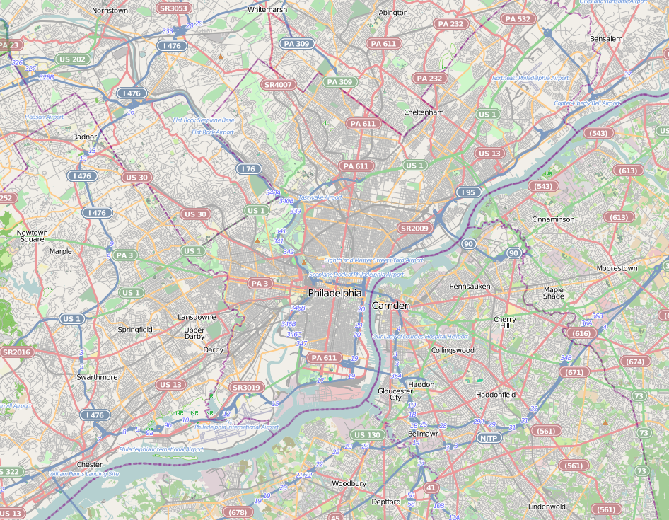 This map of the Philadelphia metropolitan area was created from OpenStreetMap project data, collected by the community. This map may be incomplete, and may contain errors. Don't rely solely on it for navigation.